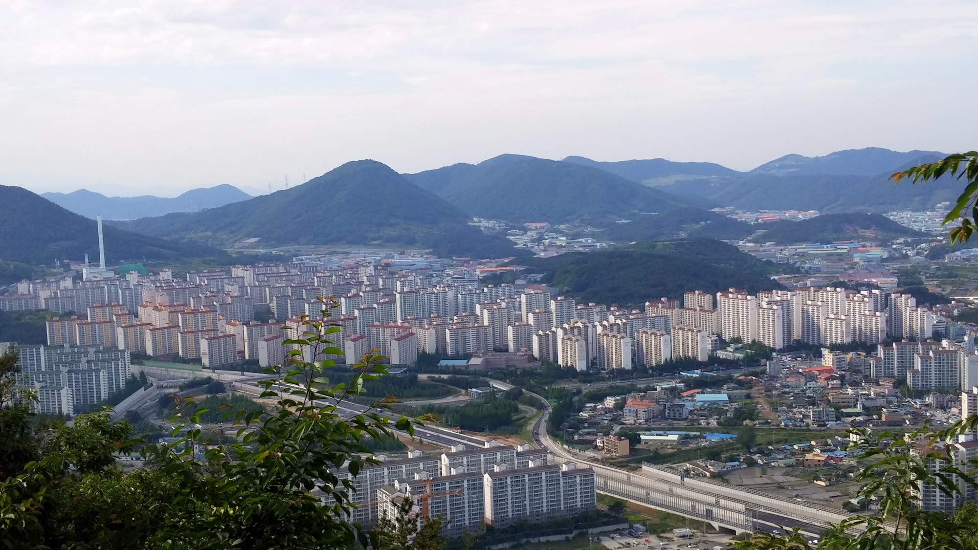 Jangyu, Gimhae, South Korea. This image was taken from Ballyong Mountain.